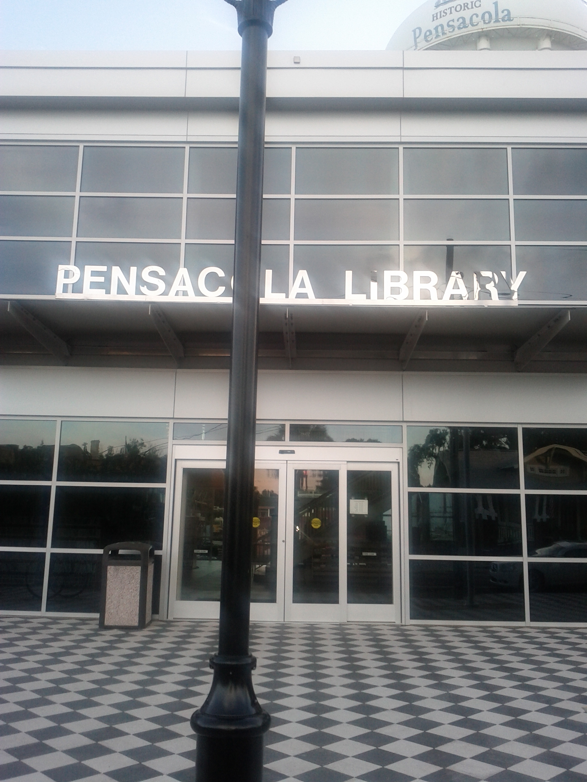 Downtown Pensacola Public Library